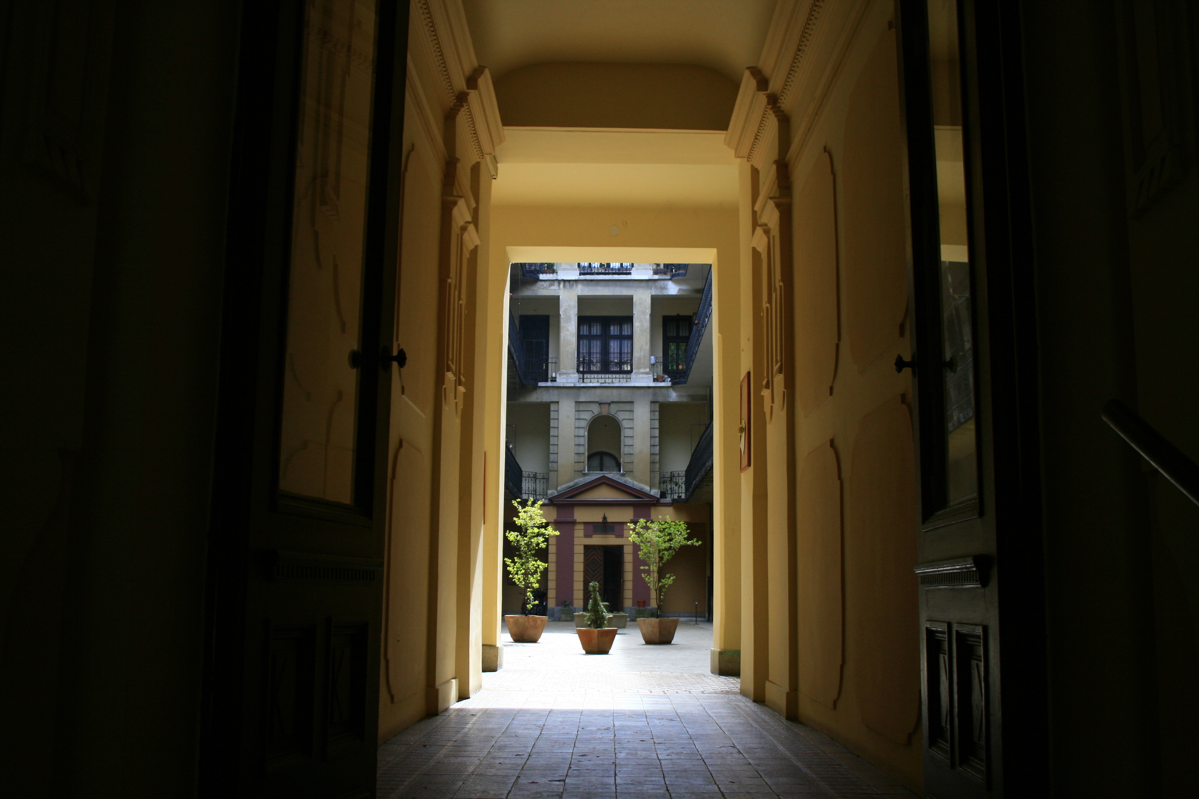 Bartok Bela Unitarian Church - 1092. Budapest, Hőgyes Endre utca 3